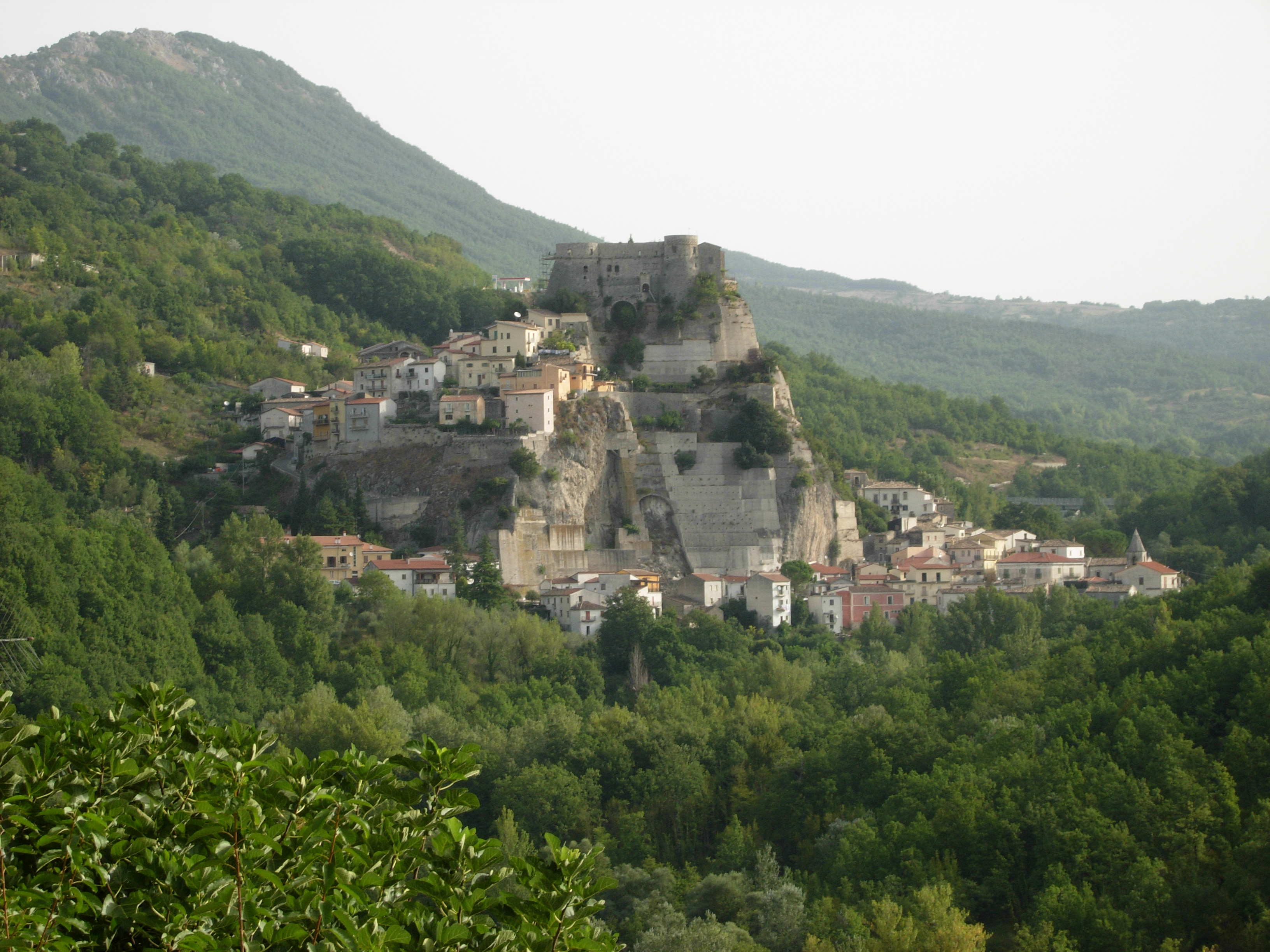 Cerro al Volturno